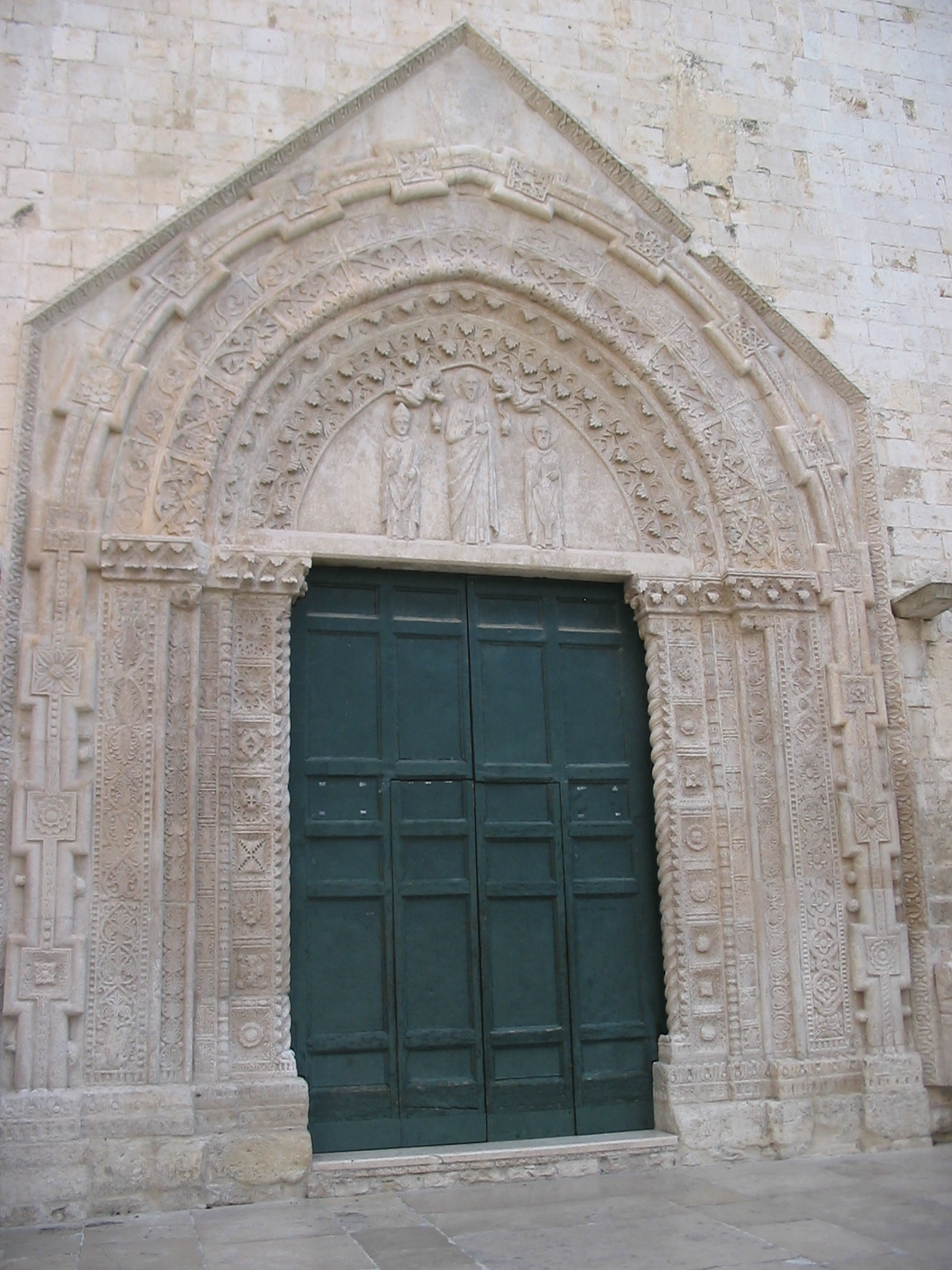 Il portale della Chiesa di Sant'Agostino ad Andria